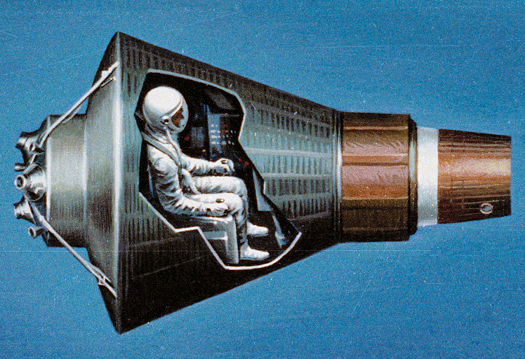 Mercury spacecraft cutaway